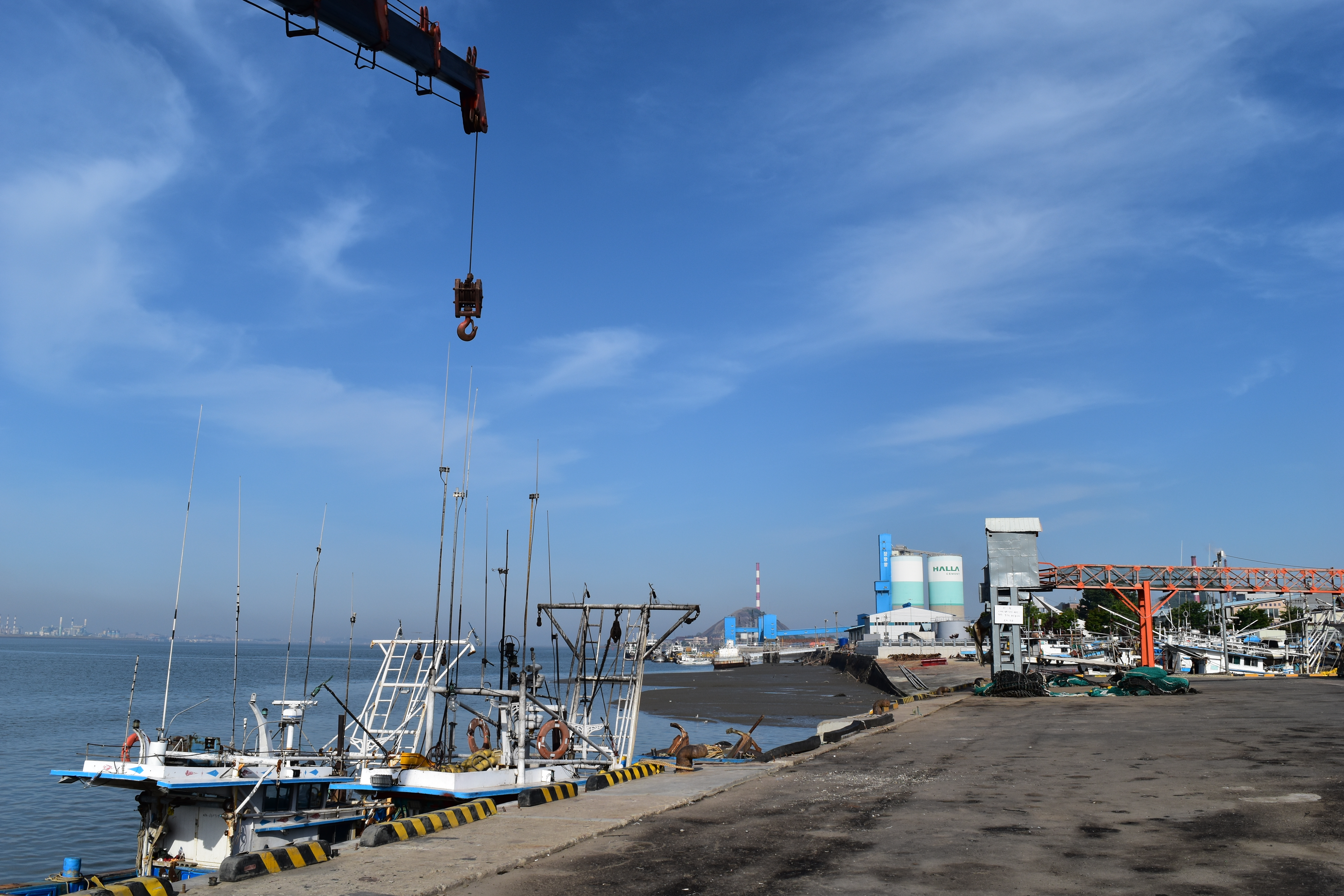 Janghang port at Janghang-eup, Seocheon, Chungcheongnam-do, South Korea